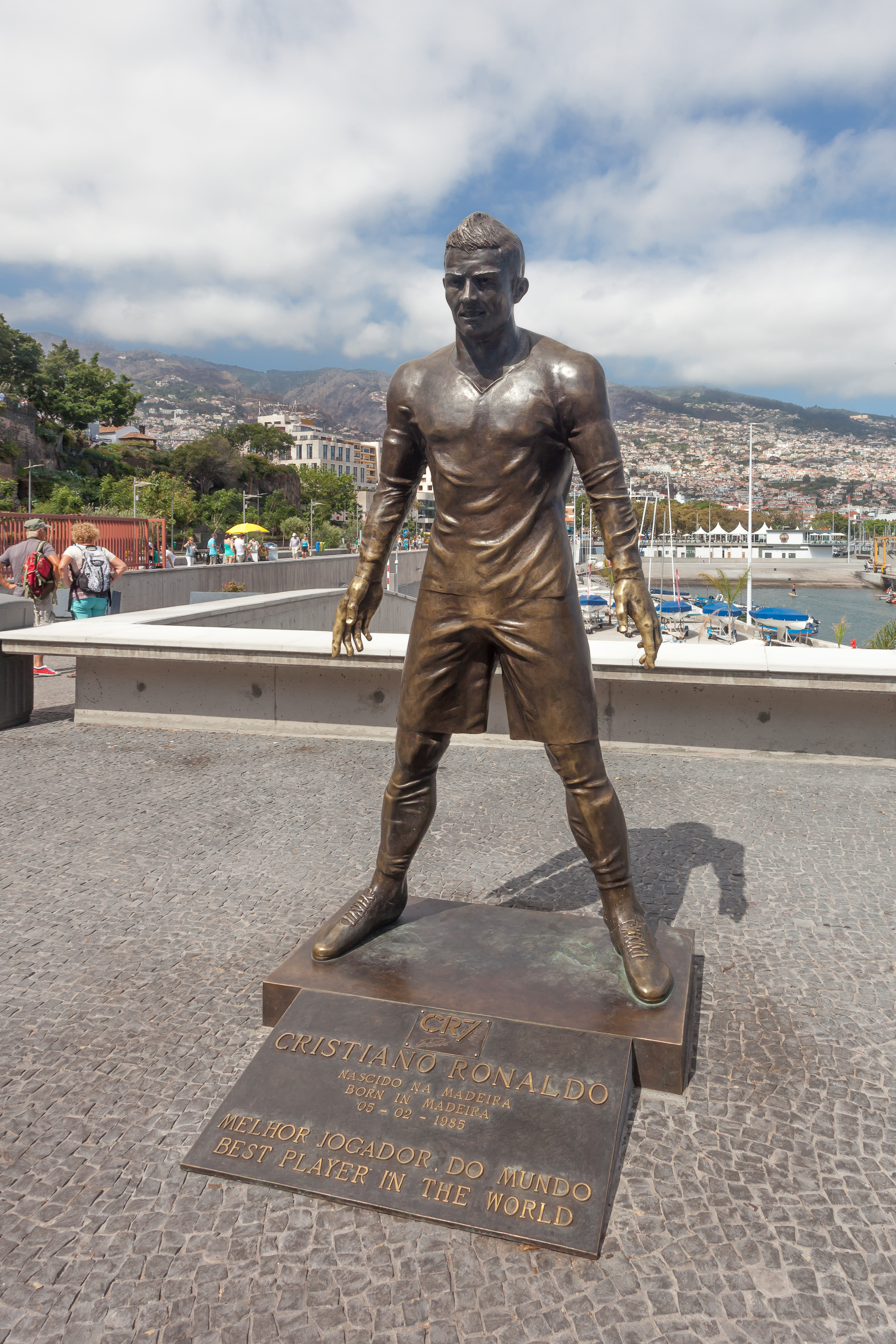 Statue of Cristiano Ronaldo, Madeira, Portugal.